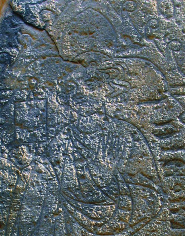 Szprotawa Poland, The Law of Gravity 1316, Photo by Maciej Boryna 2013